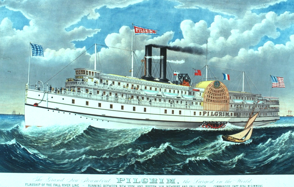 The Steamer Pilgrim, part of the "old" Fall River Line.